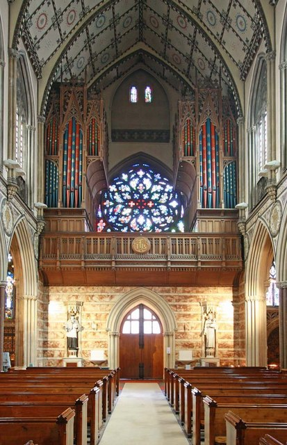 The Immaculate Conception, Farm Street, London W1 - West end